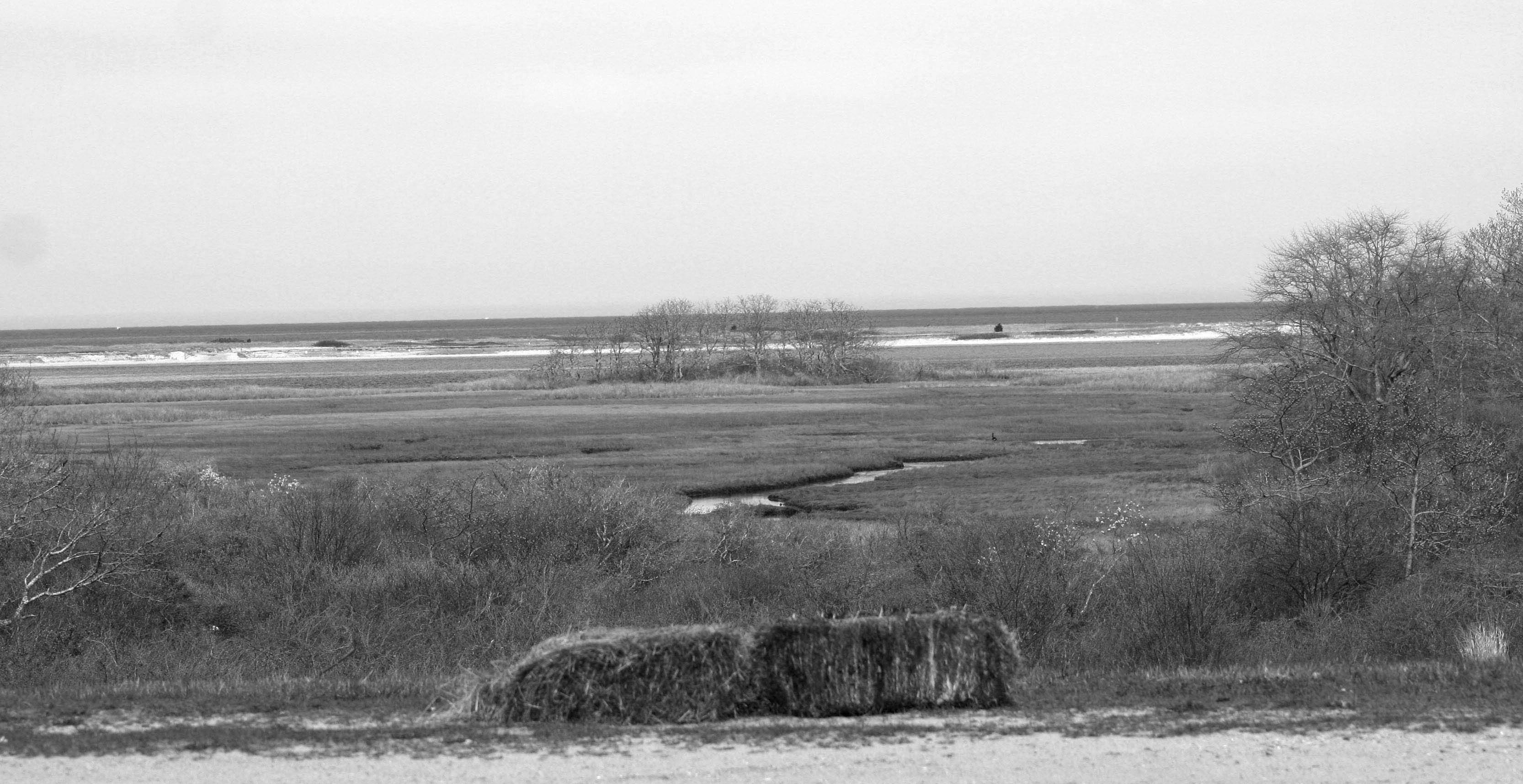 Felix Neck, Edgartown Mass., 2008